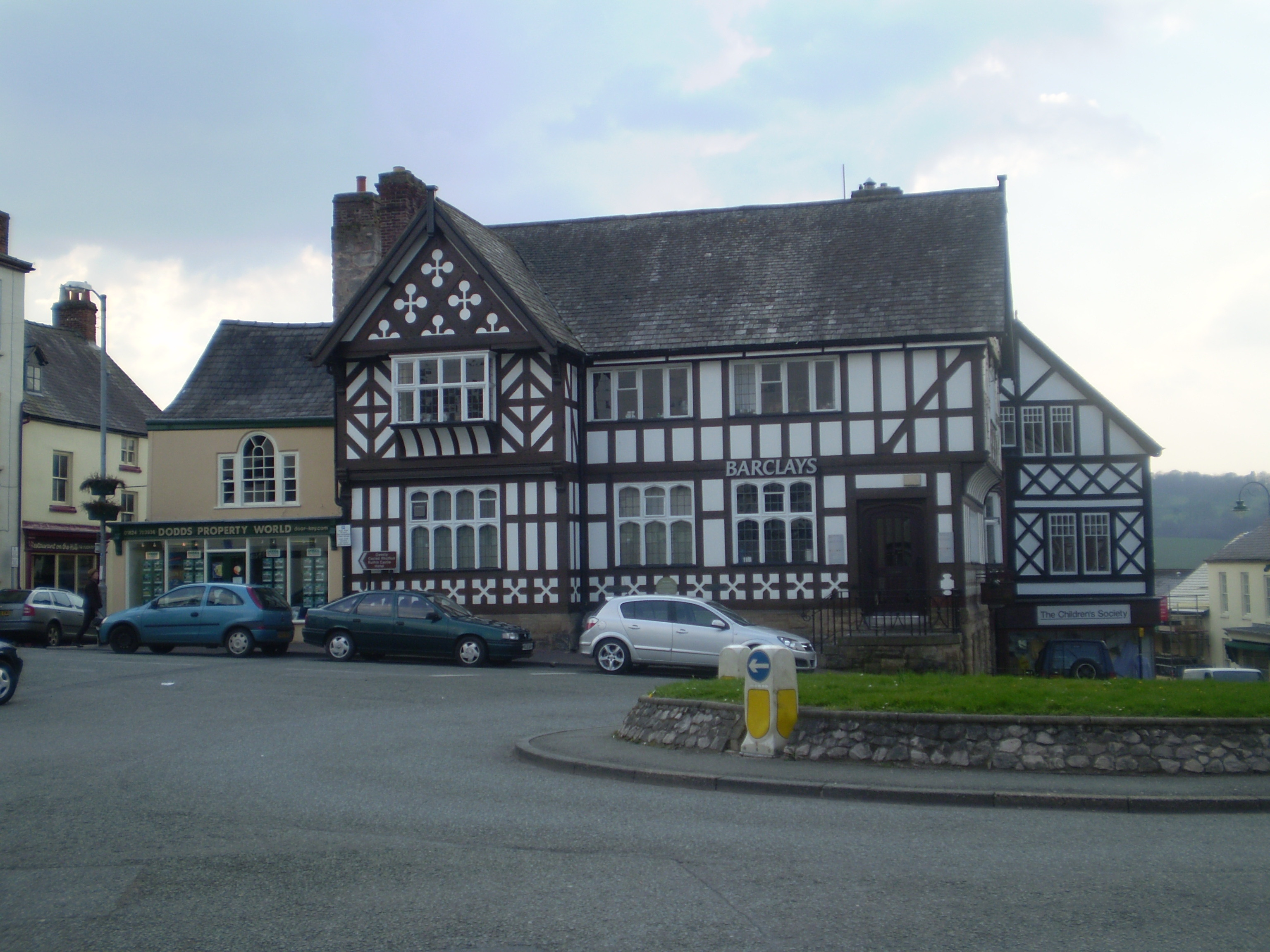 Exmewe Hall (previously Barclays Bank) on St Peter's Square, Ruthin, Wales, is the ancestral home of Sir Thomas Exmewe, Lord Mayor of London in 1517-18. Maen Huail, the stone upon which legendarily King Arthur beheaded his rival-in-love Huail, is behind the silver car.